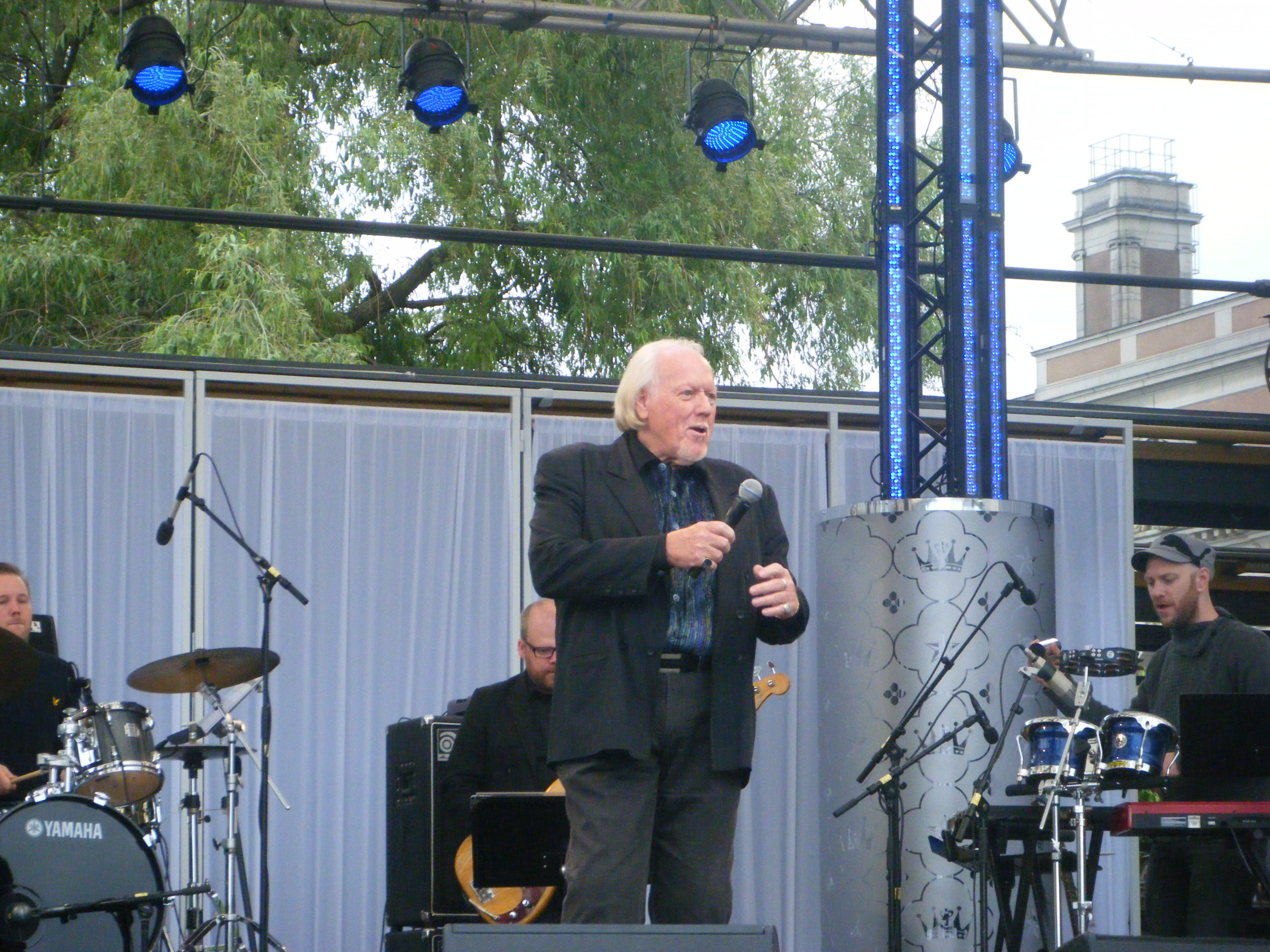 Swedish singer, Svante Thuresson